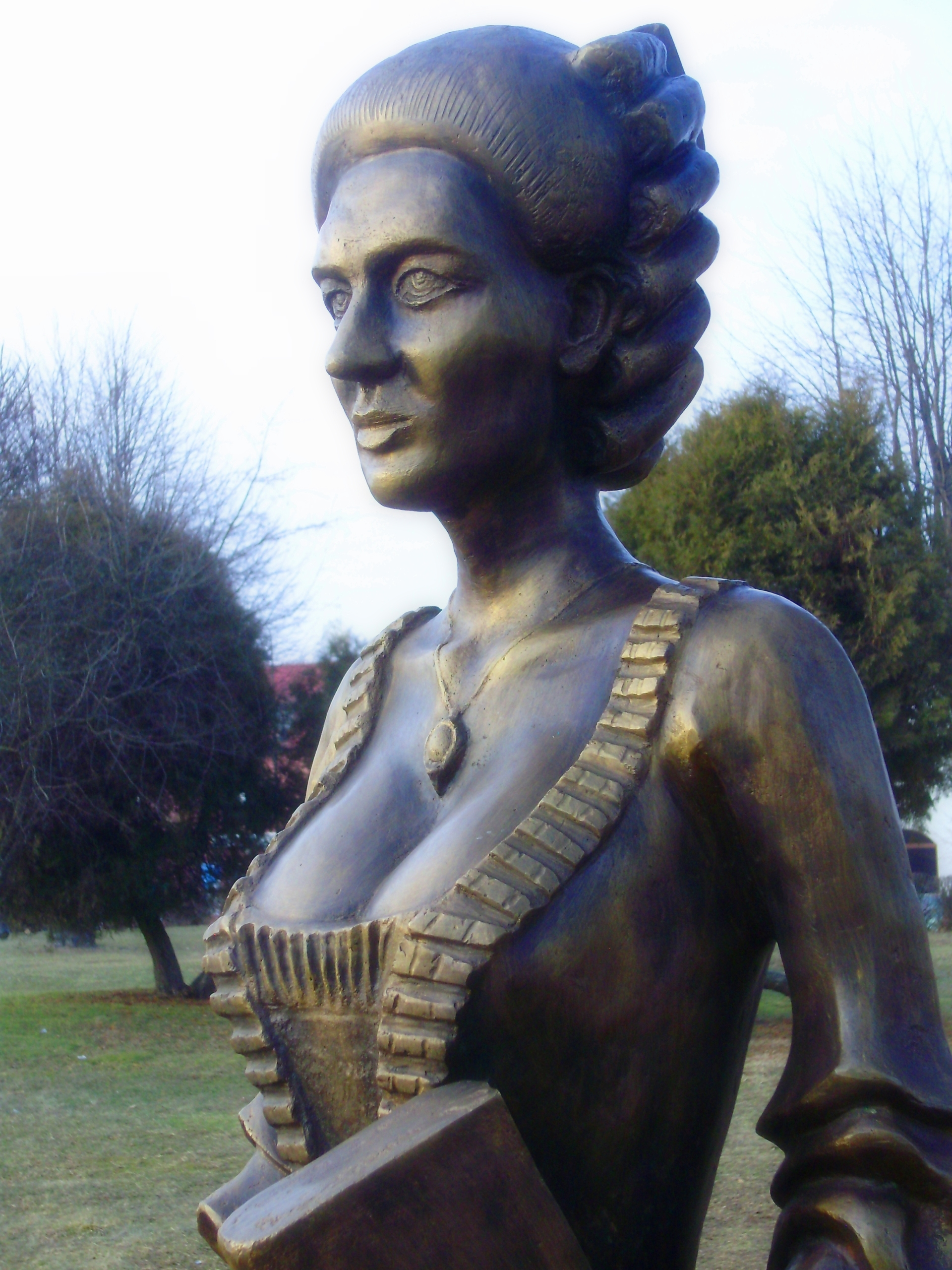 A close-up of the statue of Anna Jabłonowska located in Siemiatycze, Poland.